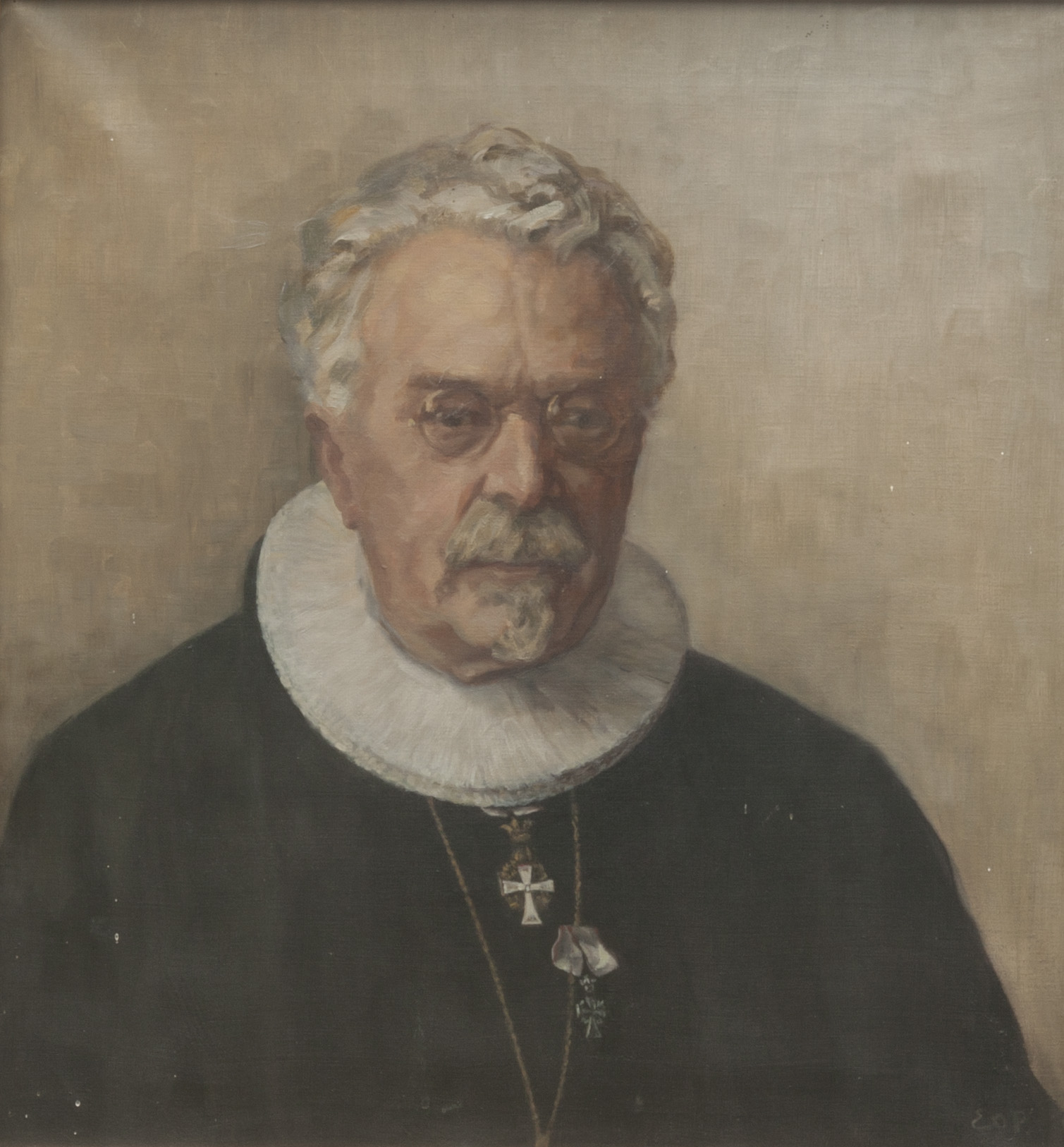 Oluf Kirstein Peter Vogn Olesen, bishop in Ribe, Denmark, 1923-1930. Painted by Ellen Olesen Petersen, daughter of Oluf Kirstein Peter Vogn Olesen